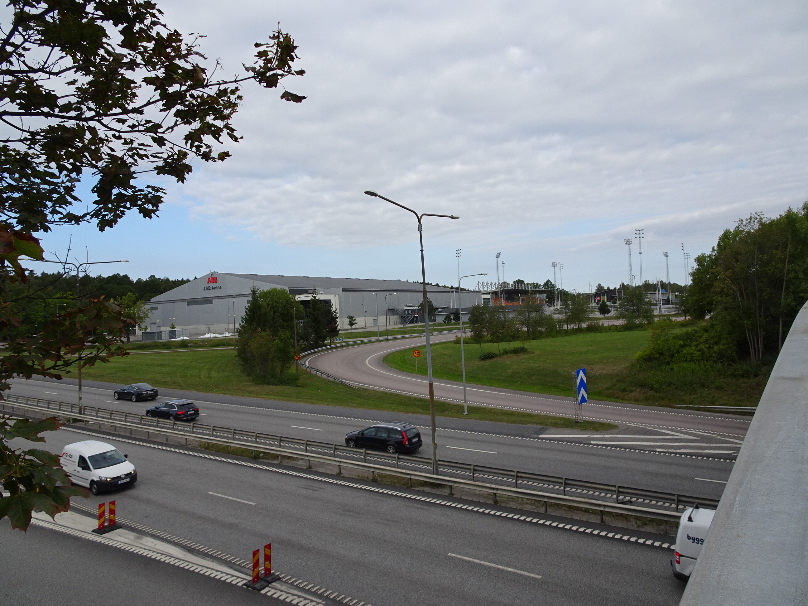 Rocklunda, a district in Västerås, Sweden. ABB Arena Syd.